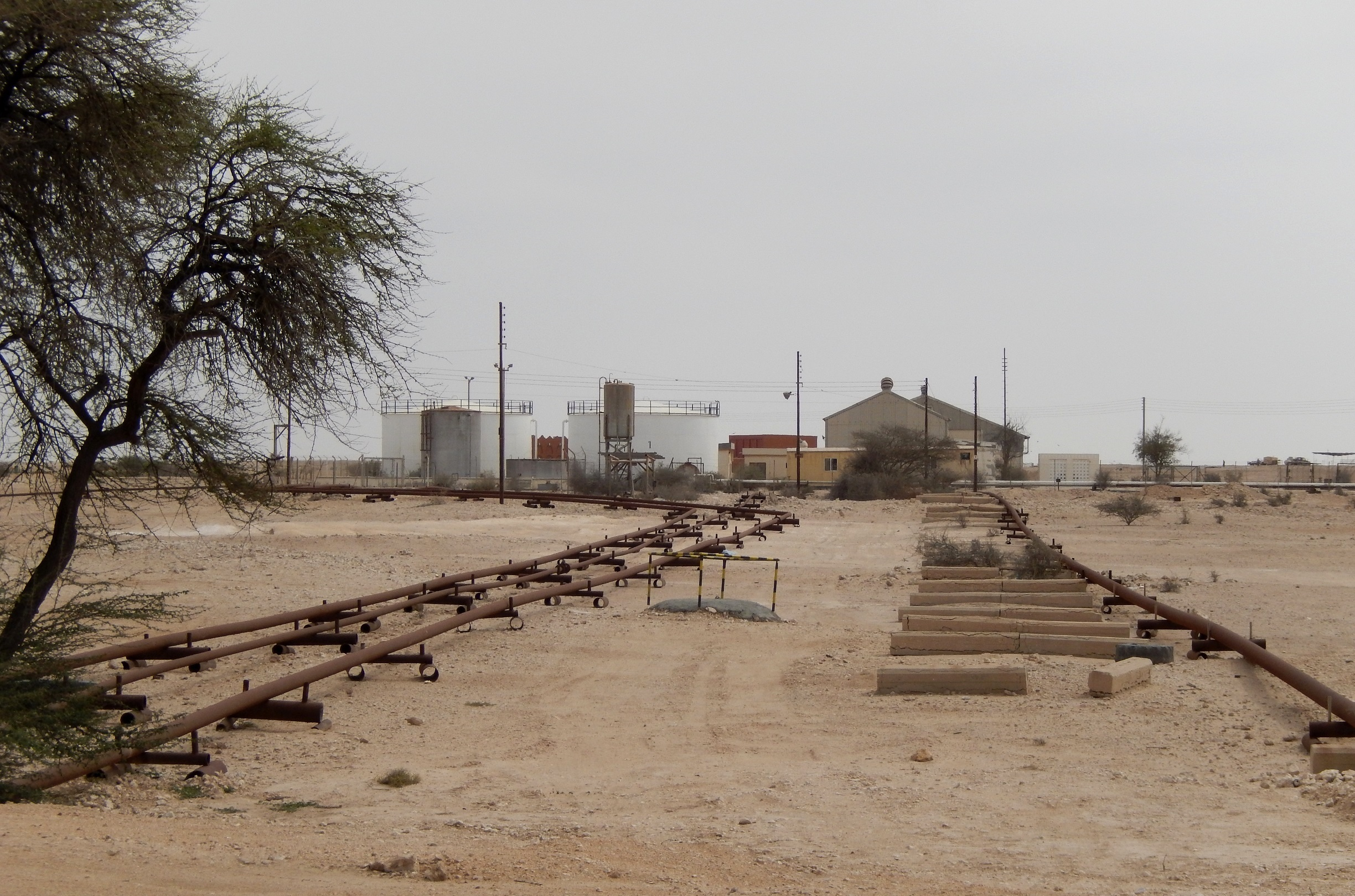 Old oil installation, half way between Al Jumailiyah and Al Utouriya, near the settlement of Al Sunu (As Sun)(municipality of Al Rayyan, Qatar).